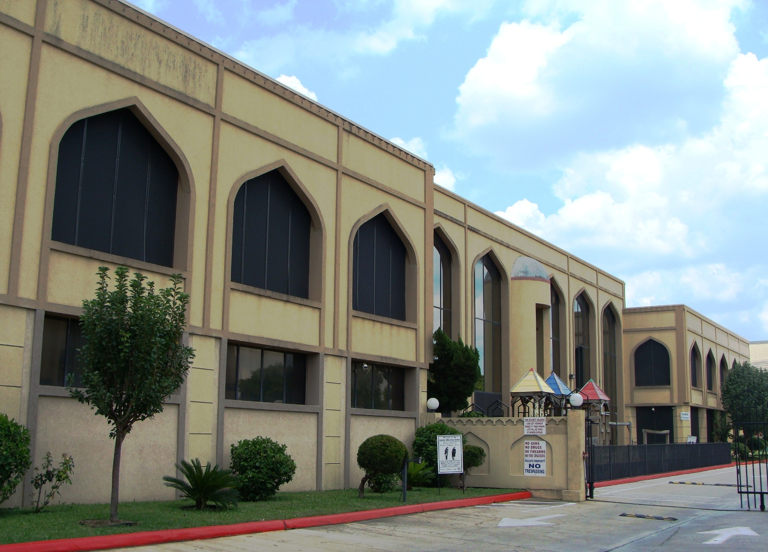 Islamic Education Center, Houston, Texas - Includes the Al-Hadi School of Accelerative Learning